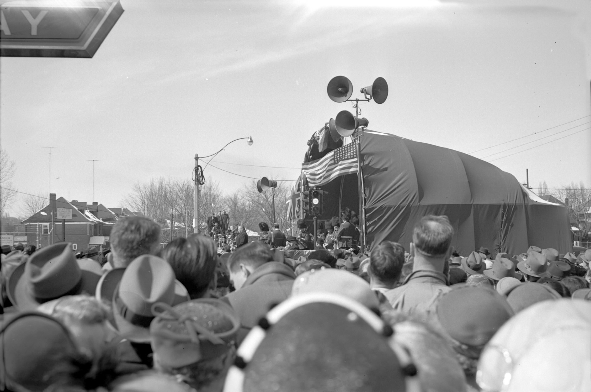 Subways have been in the news quite a bit lately. Here is a shot from 1954 of the opening ceremonies of the Yonge Street subway outside Davisville station. Happy Thanksgiving weekend everyone! Creator: Salmon, James Victor (Canadian, 1911-1958) Date: 1954 Identifier: S 1-238D Format: Picture Rights: Public domain Courtesy: Toronto Public Library. More information: (view details and larger image)